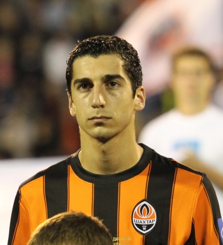 Henrikh Mkhitaryan, is an Armenian football midfielder, who currently plays for Ukrainian Premier League club Shakhtar Donetsk.